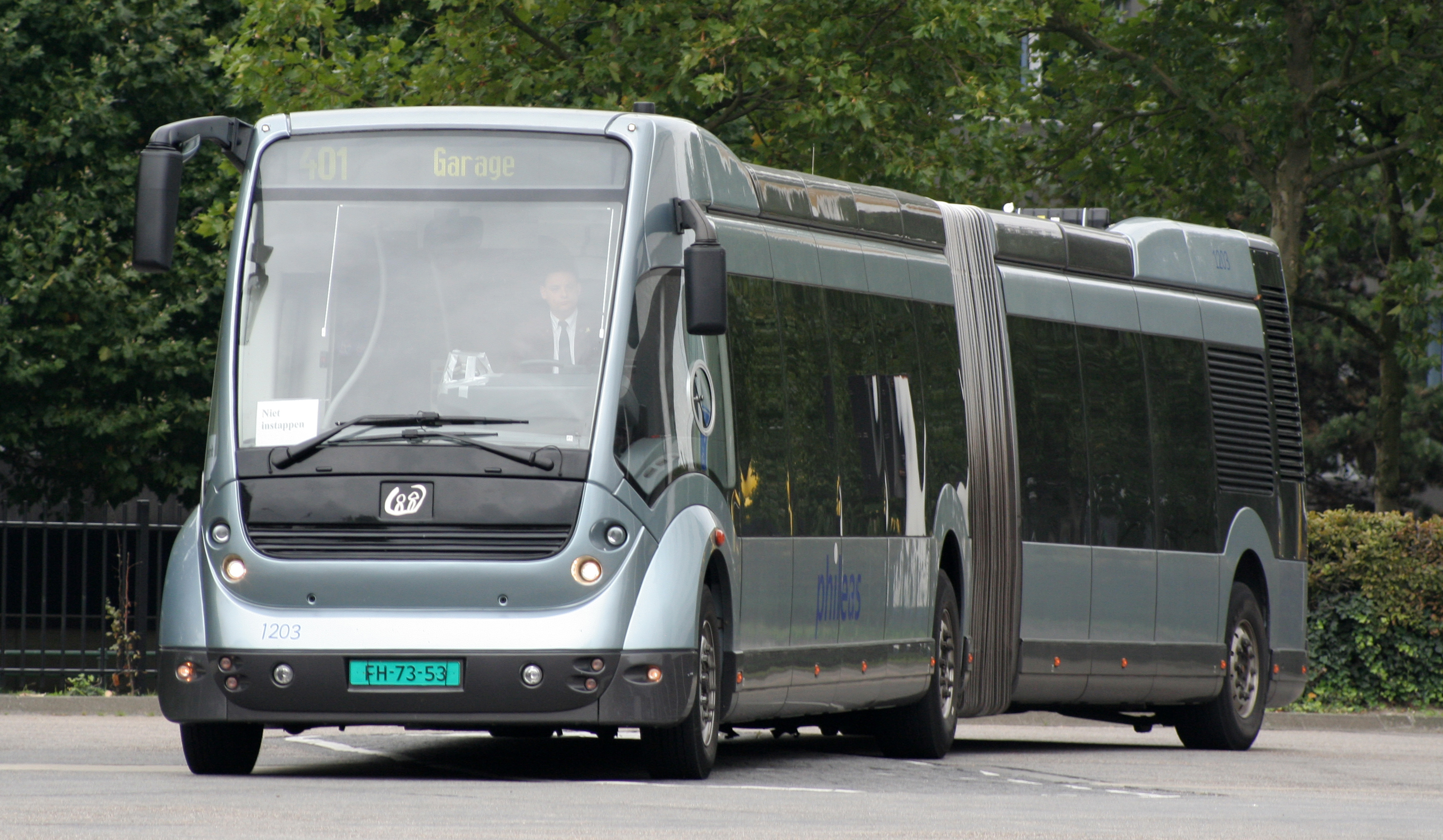 APTS Phileas 18 bus (#1203; FH-73-53) prototype during a test run in Eindhoven, Netherlands. Built 2002, Hermes Groep N.V. from Weert operator.